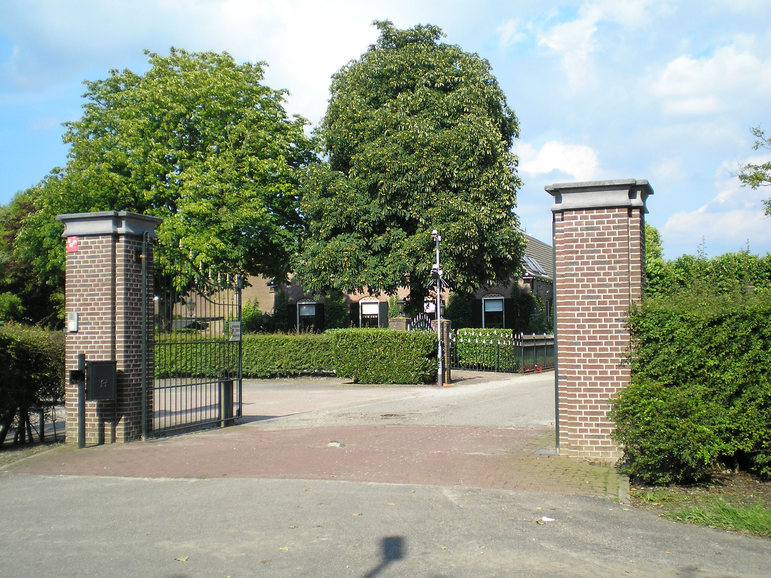 Farm Mereveld the Mereveldseweg in Utrecht in the Netherlands